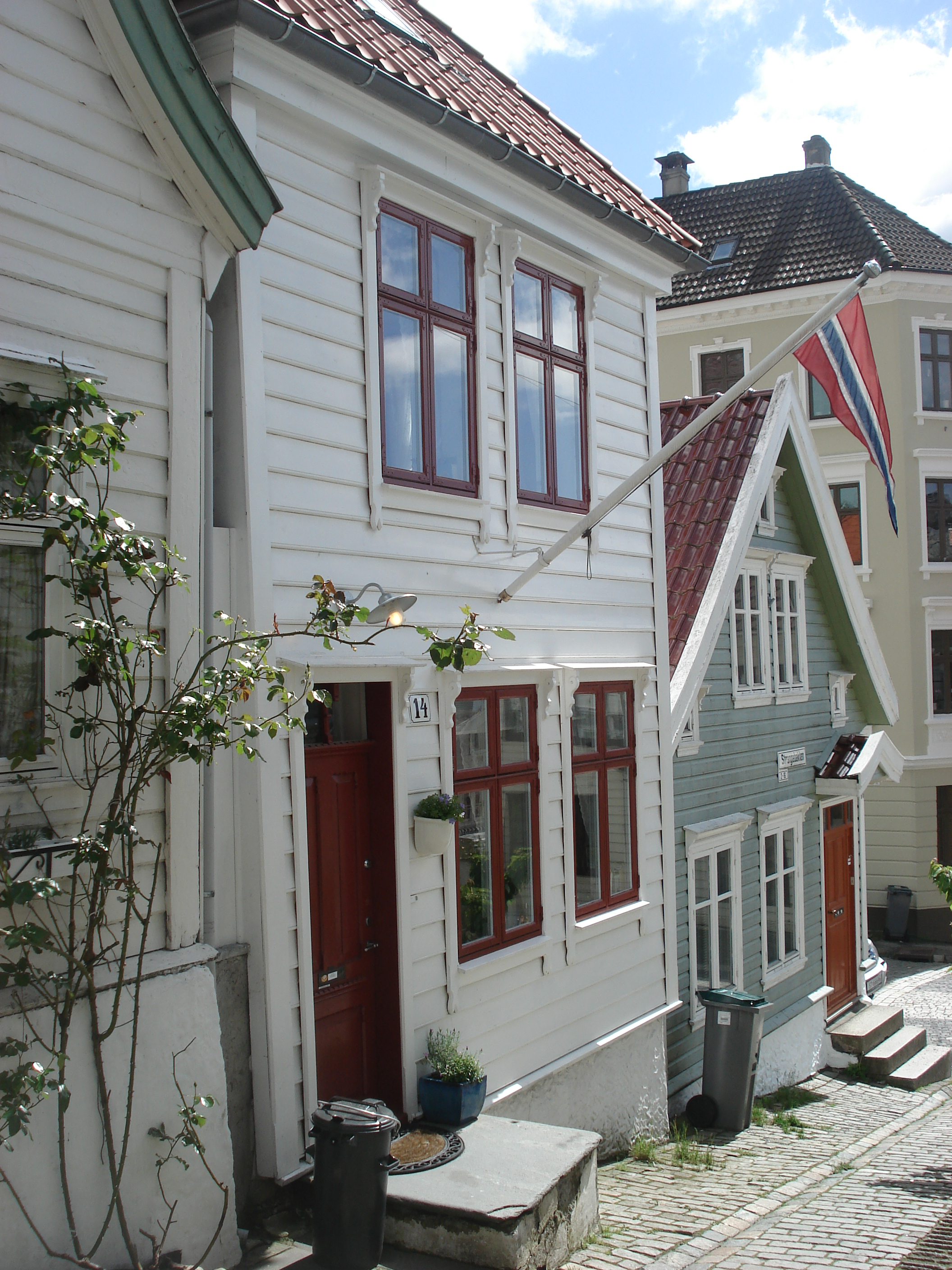 The home where Hilmar Reksten grew up.